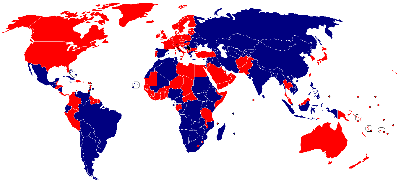 Map of States accepting / not accepting the borders of the Republic of Serbia as claimed by the republic itself (as a result of the declaration of independence by the government of Kosovo)